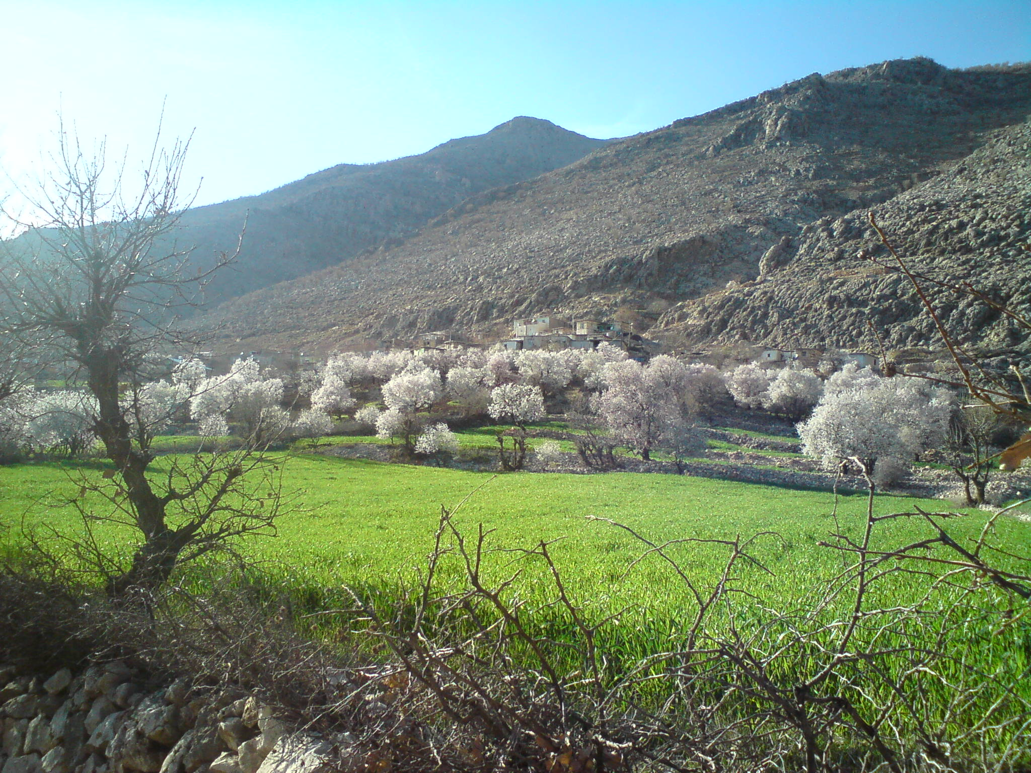 Aydınpınar, Kahta Kurdî: Şume, Kolîk